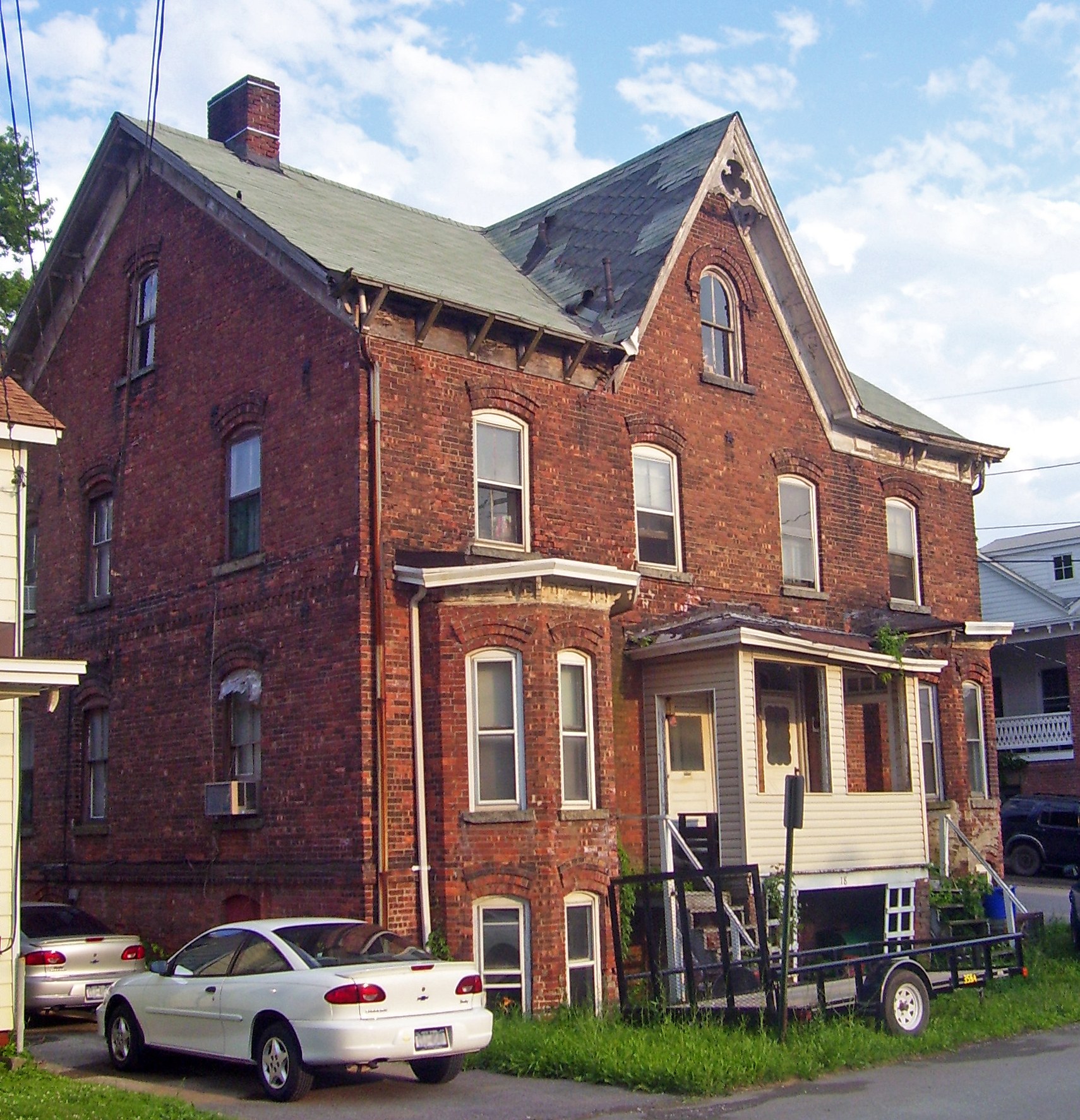 William Shays Double House, New Hamburg, NY, USA. Numbers on vehicle license plates obscured to protect owners' privacy